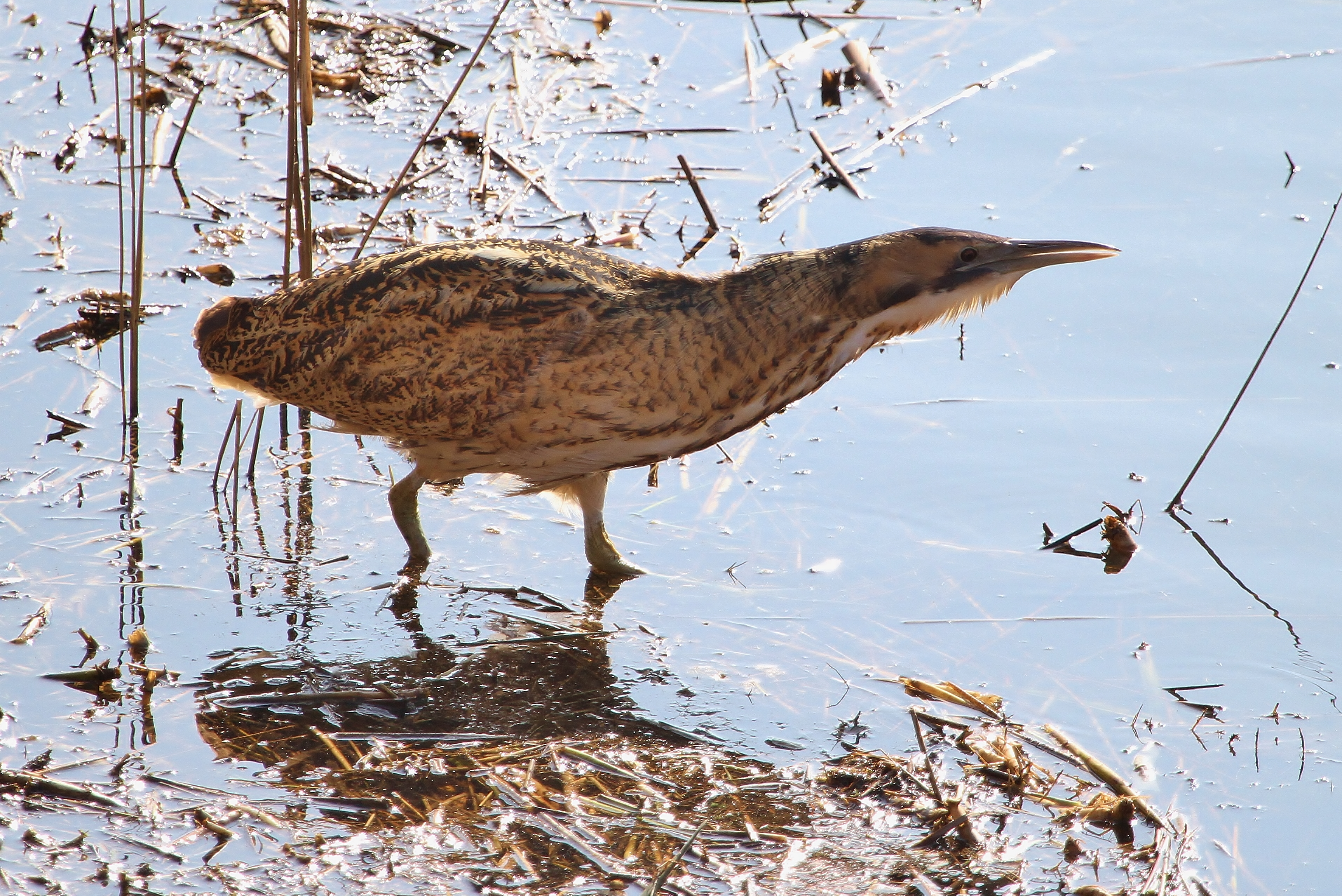 A Eurasian Bittern at Minsmere RSPB reserve, Suffolk, England